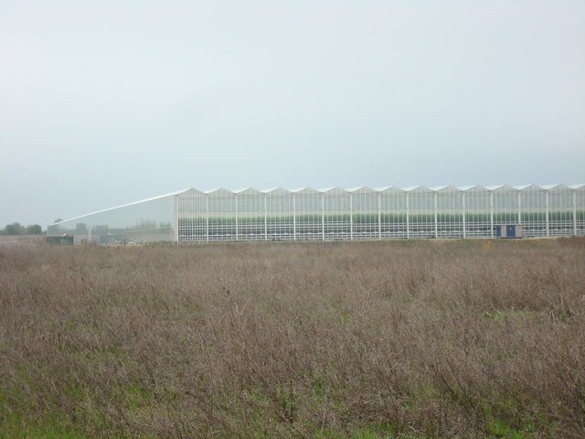 Thanet Earth on Planet Thanet This hydroponics complex alongside the Thanet Way, will be able to grow 1.3 million salad vegetables in 7 glasshouses.